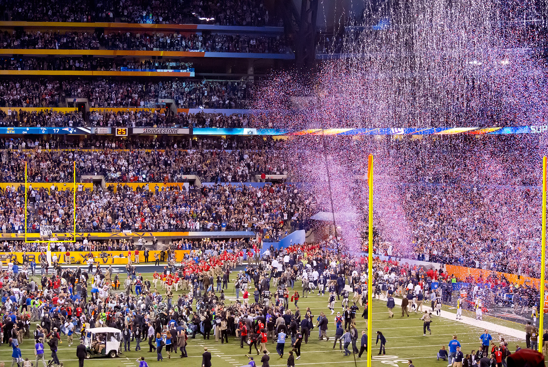 NY Giants win.